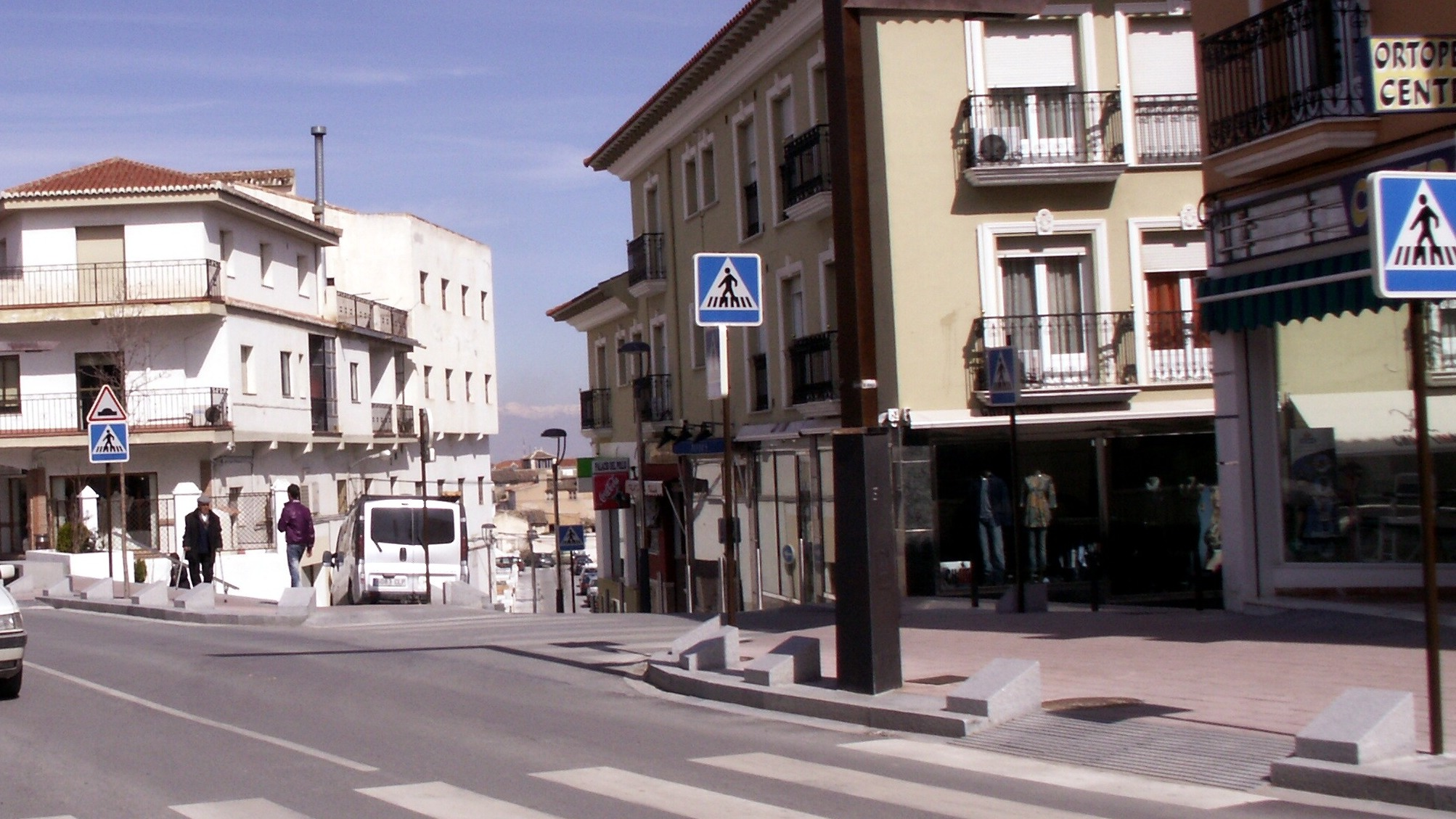 Baza, Spain